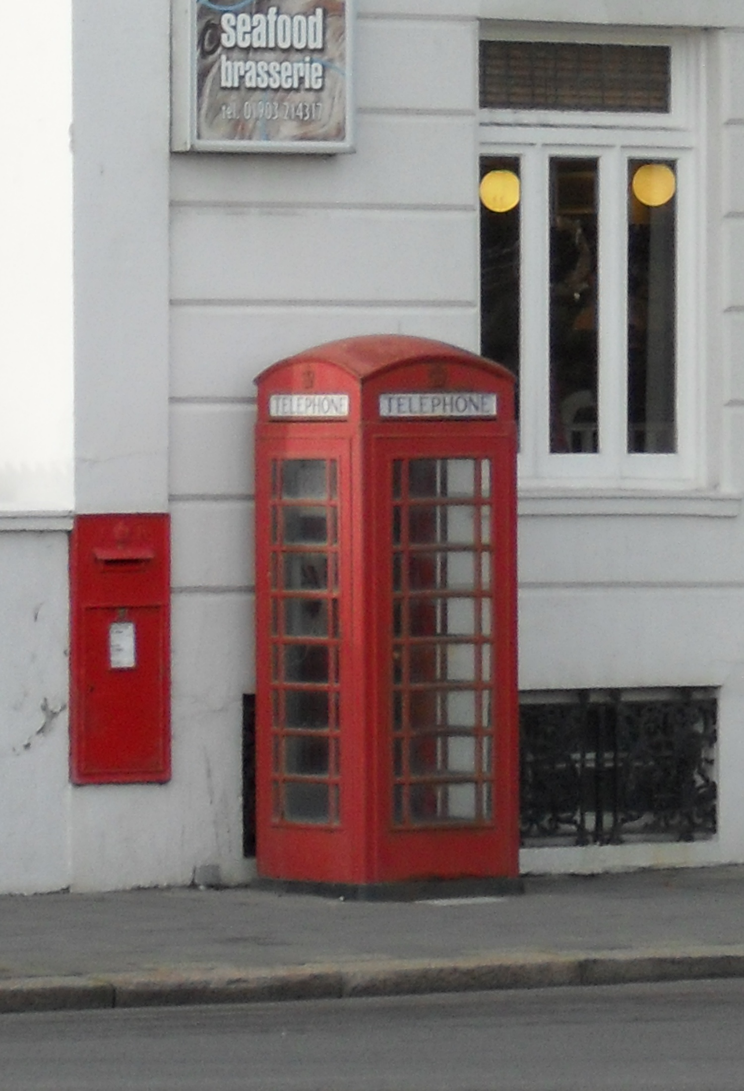 K6 telephone kiosk, The Steyne, Worthing, West Sussex, England. Listed at Grade II by English Heritage (IoE Code 433339)